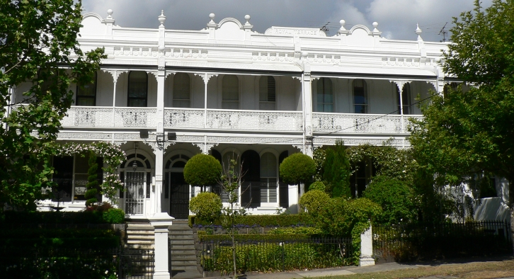 Royal Terrace. Williams Road. Toorak, Victoria.